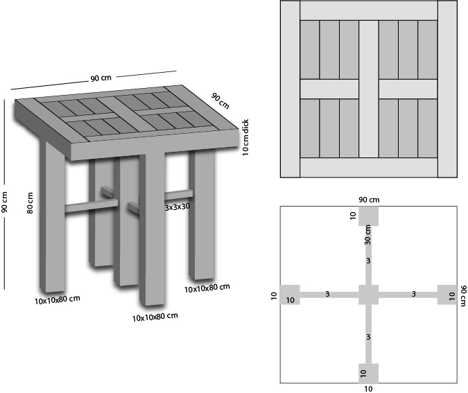 This is the original design by John Grantham for the altar used in the parish church of St. Maria Angelica, Hannover, Germany. It was first designed in 2005 and built by him together with the parish priest, Oliver Kaiser, and used in the parish hall’s chapel until the church was completed. A new version using the same design was made in 2011, and then consecrated along with the by now complete church by Bishop Matthias Ring. The altar design makes heavy use of numeric symbolism: - The five legs represent the Stigmata of Christ and are arranged in the shape of a Greek cross. - The outer dimensions form a cube, which is the simplest representation of three dimensions, three referring to the Holy Trinity and to the unity of God. - Viewed from any side, the legs and top form a tau cross or T-cross. - The mensa (top) of the altar is composed of four groups of three blocks of wood each: Three stands for the Trinity and thus God and Heaven, four for the Earth (the four winds, four cardinal directions, four corners of the world, etc.). Three times four — thus connecting Heaven and Earth, God and man — makes twelve, the number of the Apostles, Twelve Tribes of Israel, and twelve gates of the New Jerusalem. - In the middle of the mensa, surrounding the 12 blocks, is a cross made of three blocks of wood, which in turn is surrounded by a box made of four blocks of wood, for a total of seven — the number of the Messiah. Material throughout is solid pine 10x10 planks, using wooden pegs to hold it all together. Anyone is free to make use of this design, so long as John Grantham is given credit for the original design and is also informed via e-mail to about the use of the design.